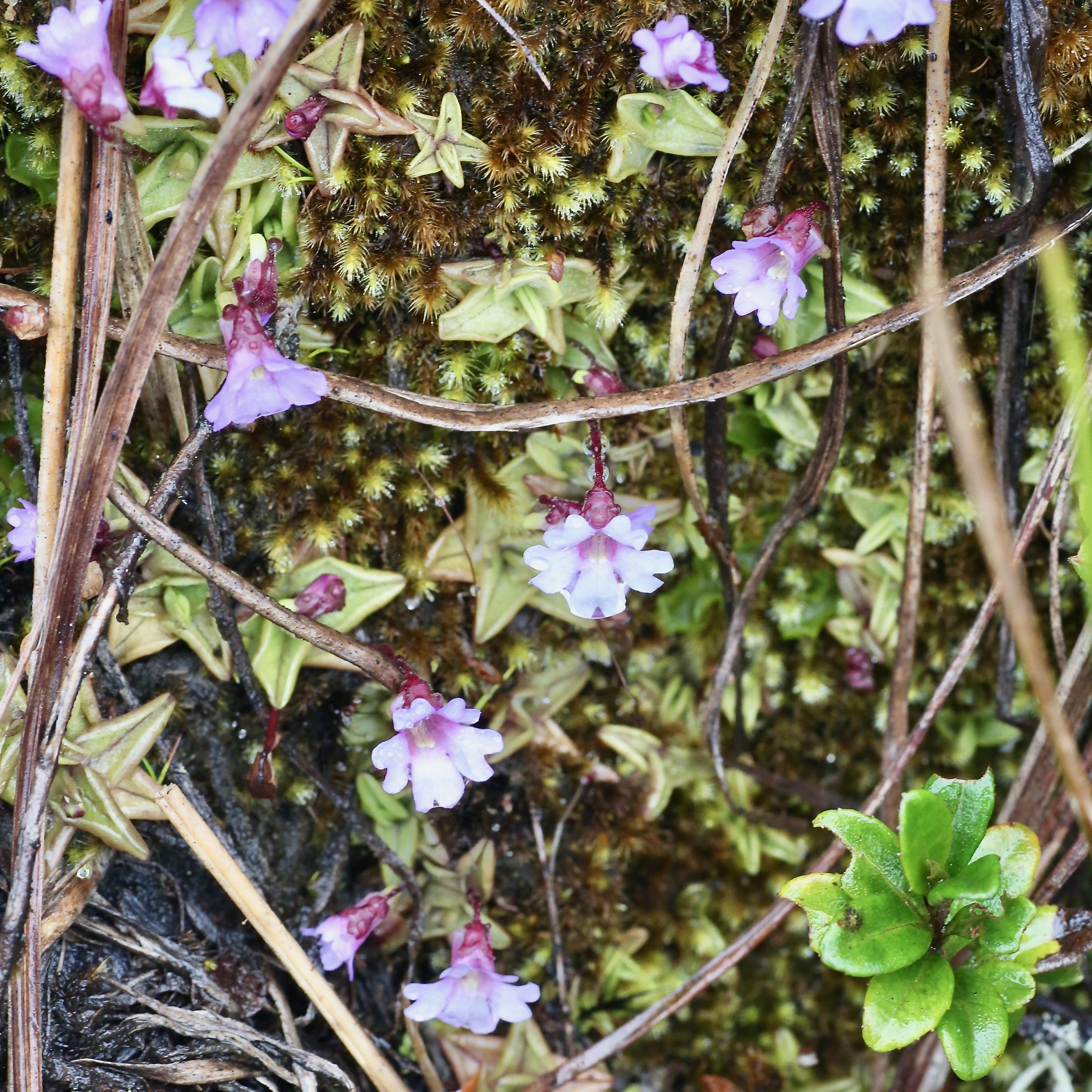 Pinguicula calyptrata. Ecuador, Napo Province, Cayambe Coca National Park, near Loreto lake, páramo, 3800 m